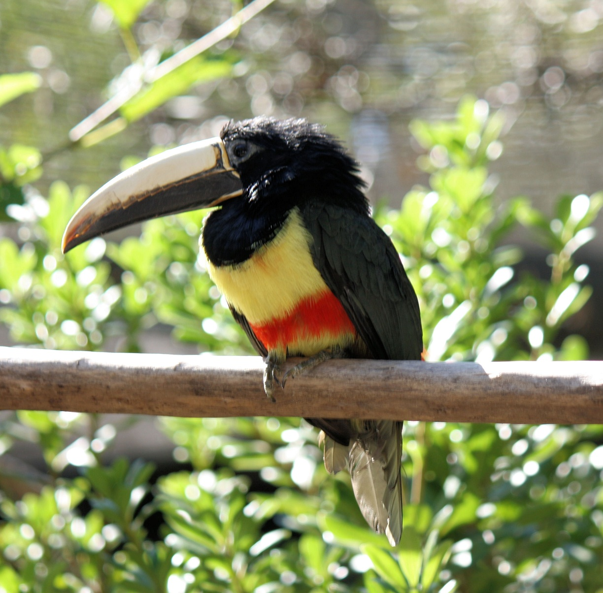 A Black-necked Aracari at Jacksonville Zoo, Florida, USA.